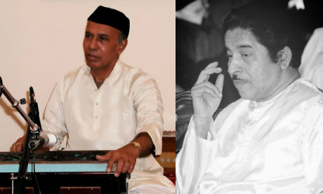 Sudhir Nayak Guruji